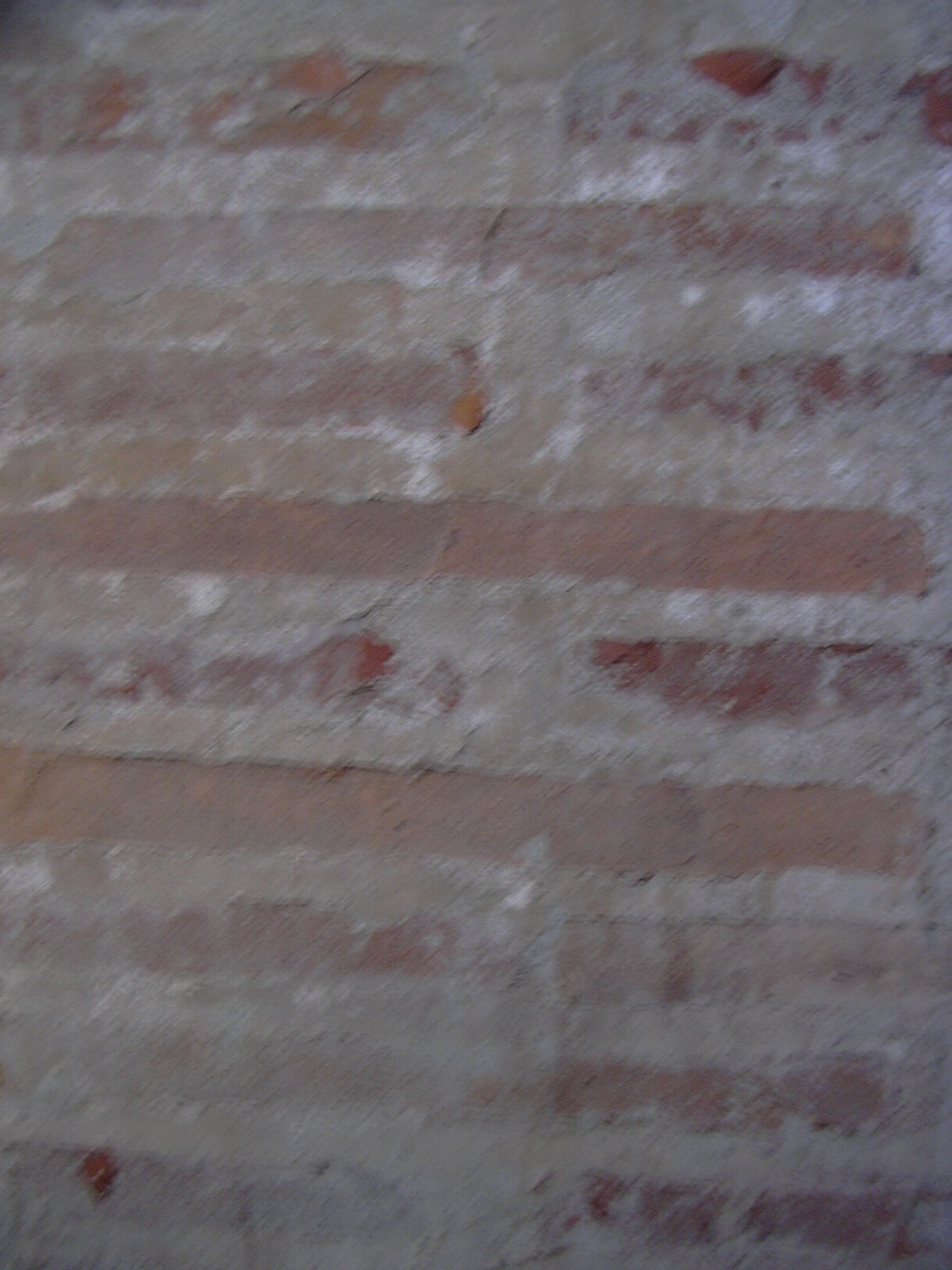 Seligenstadt, Einhard's Basilica, detail of early medieval wall